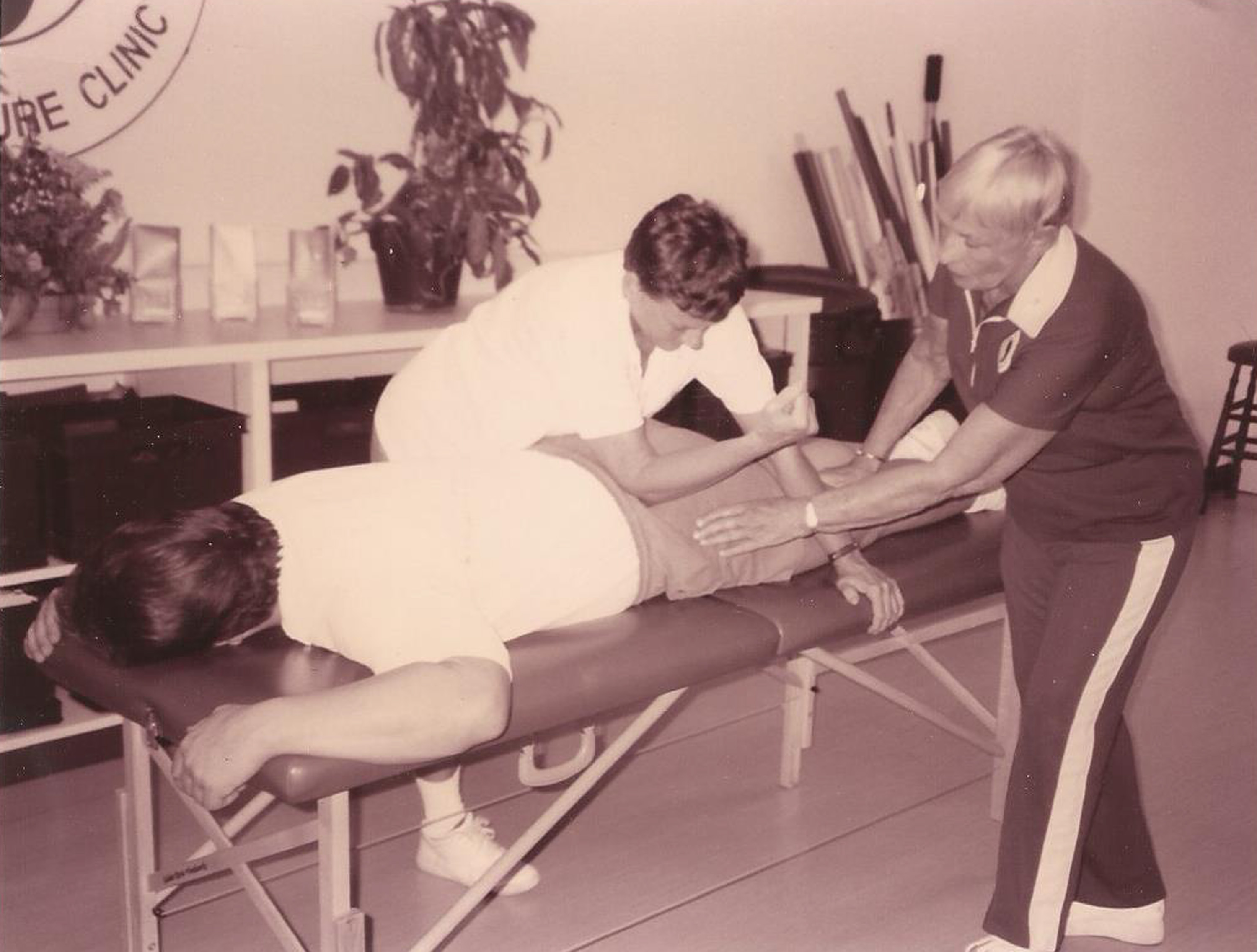 From left to right Enid Whittaker and Bonnie Prudden demonstrate Bonnie Prudden Myotherapy on Michael Haines ,Tucson, AZ, 1995